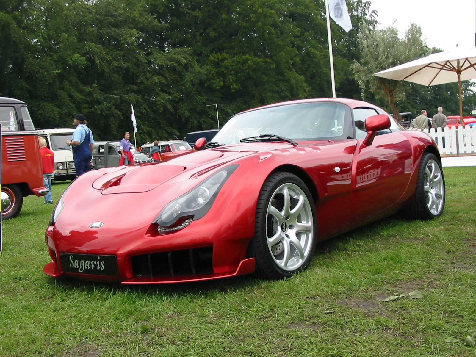 TVR Sagaris